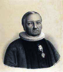 Jens Møller. 1779-1833